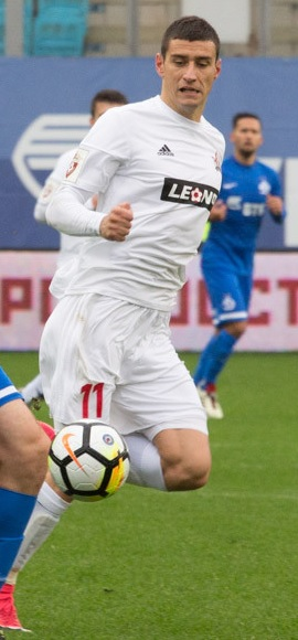 Miroslav Marković with FC SKA-Khabarovsk in a game against FC Dynamo Moscow.